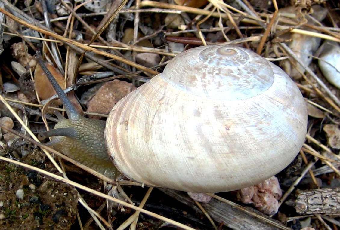 Iberus gualtieranus alonensis, Alfara de Carles (near Tortosa), Tarragona, Spain